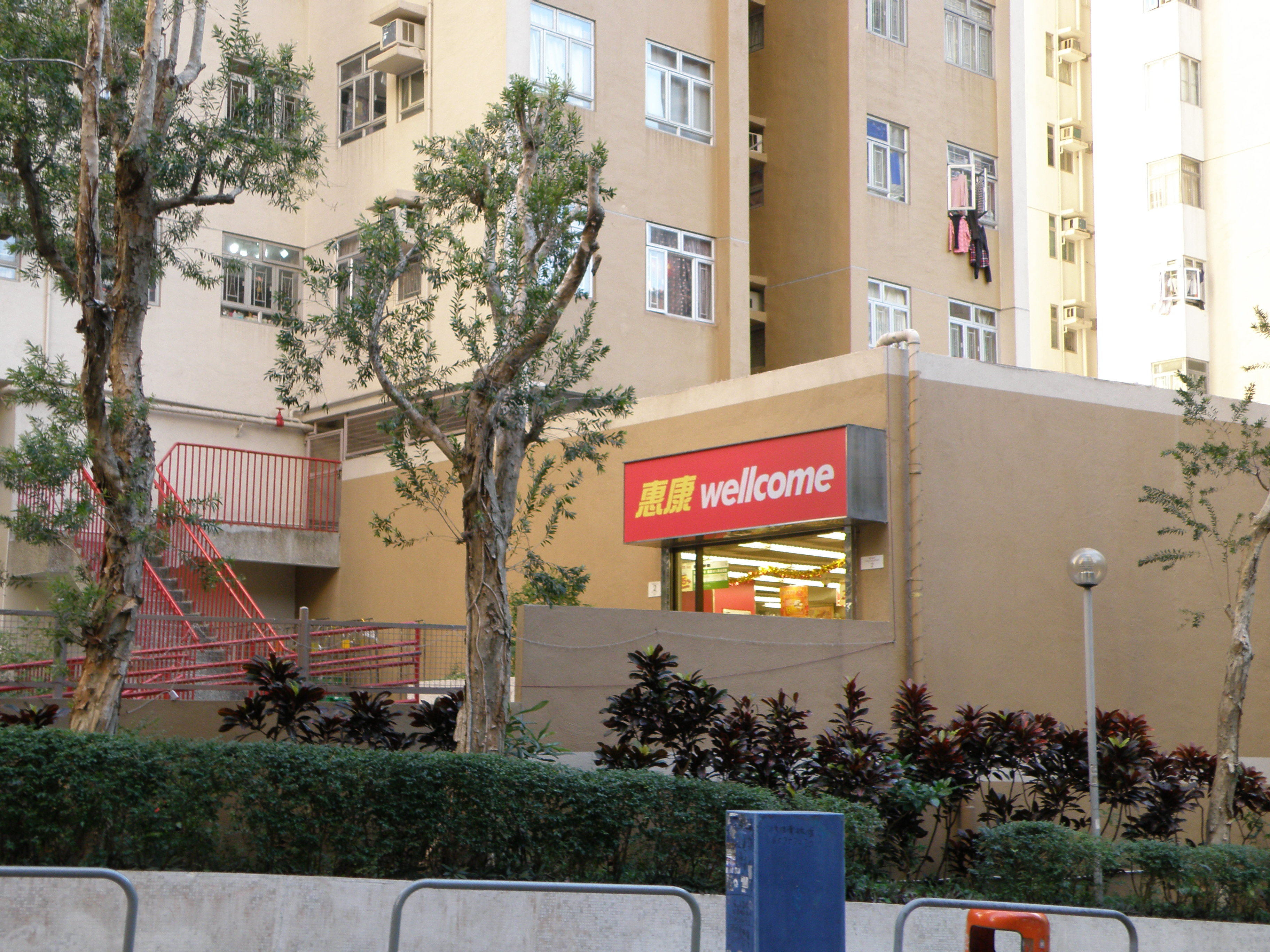 Sun Lai Garden in Hammer Hill, Hong Kong.